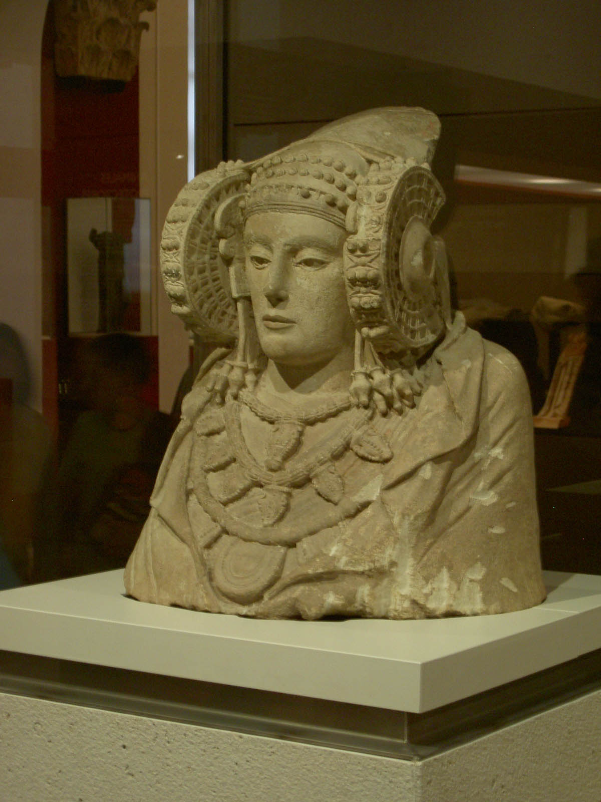 Iberian sculpture.